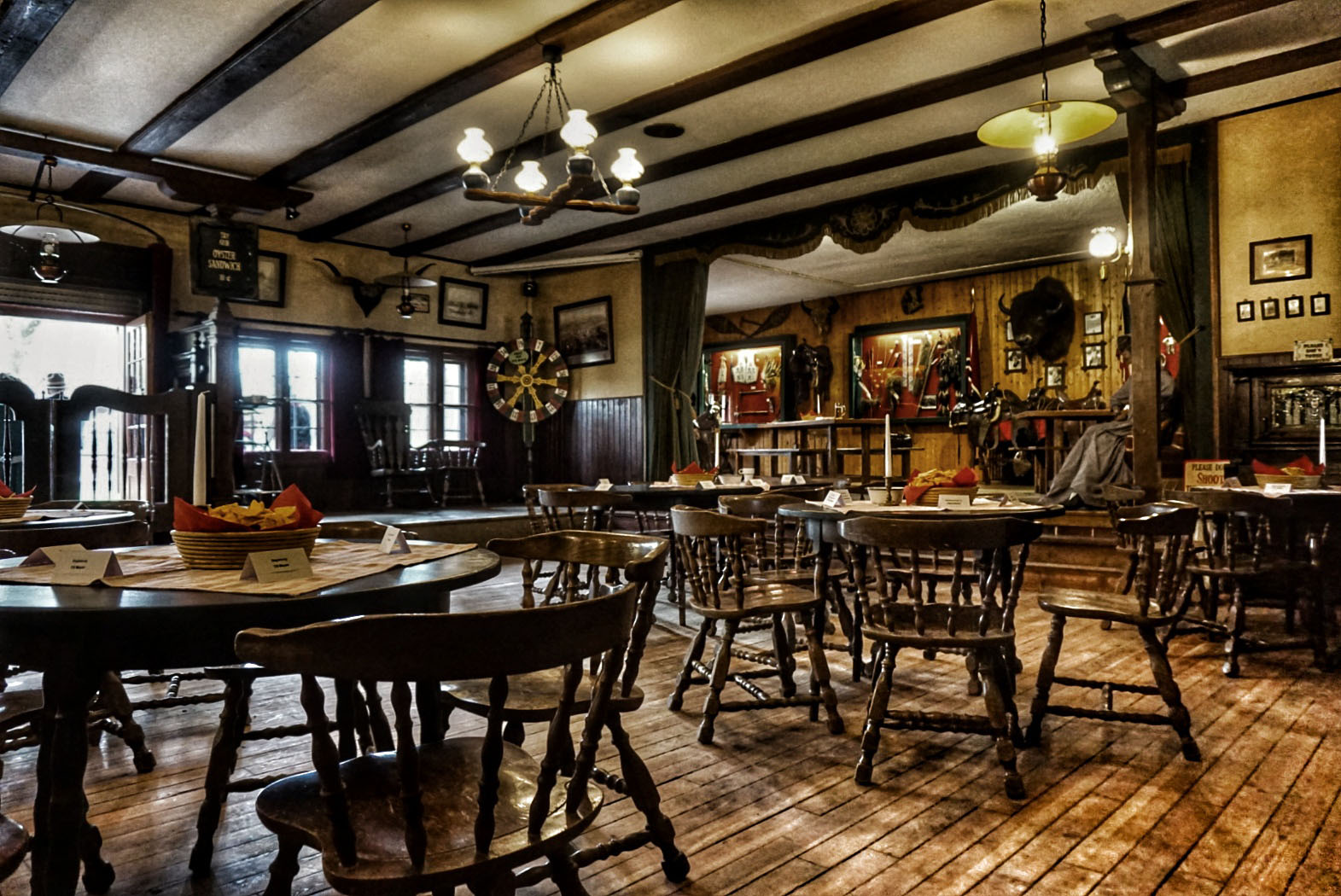 Cowboy Club Munich- "Longhorn-Saloon" - Innside view